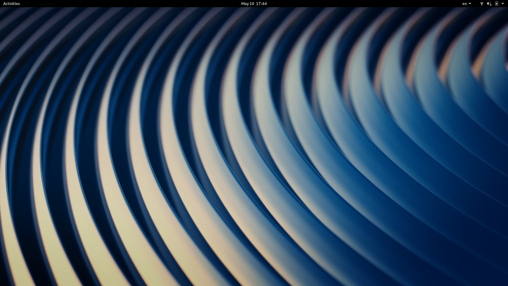 Fedora 30 GNOME